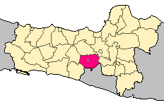 Location of Magelang county in Central Java province, Indonesia